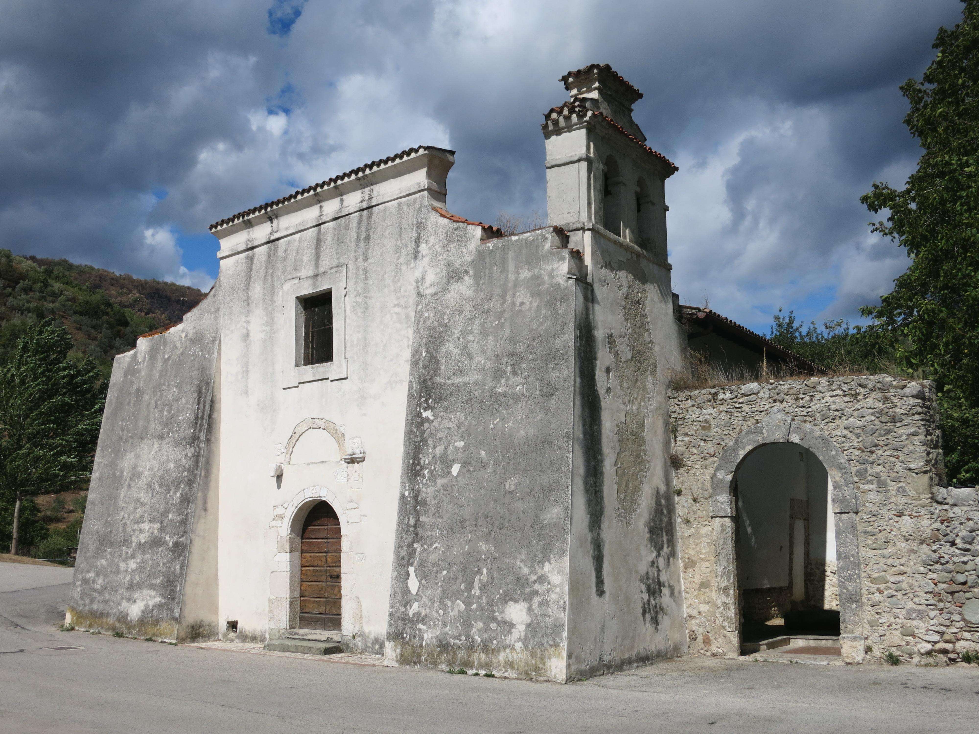 Saint Dionysius, Rusticus and Eleutherius church (also known as Saint Anthony church) in Borgo Velino, province of Rieti (central Italy).